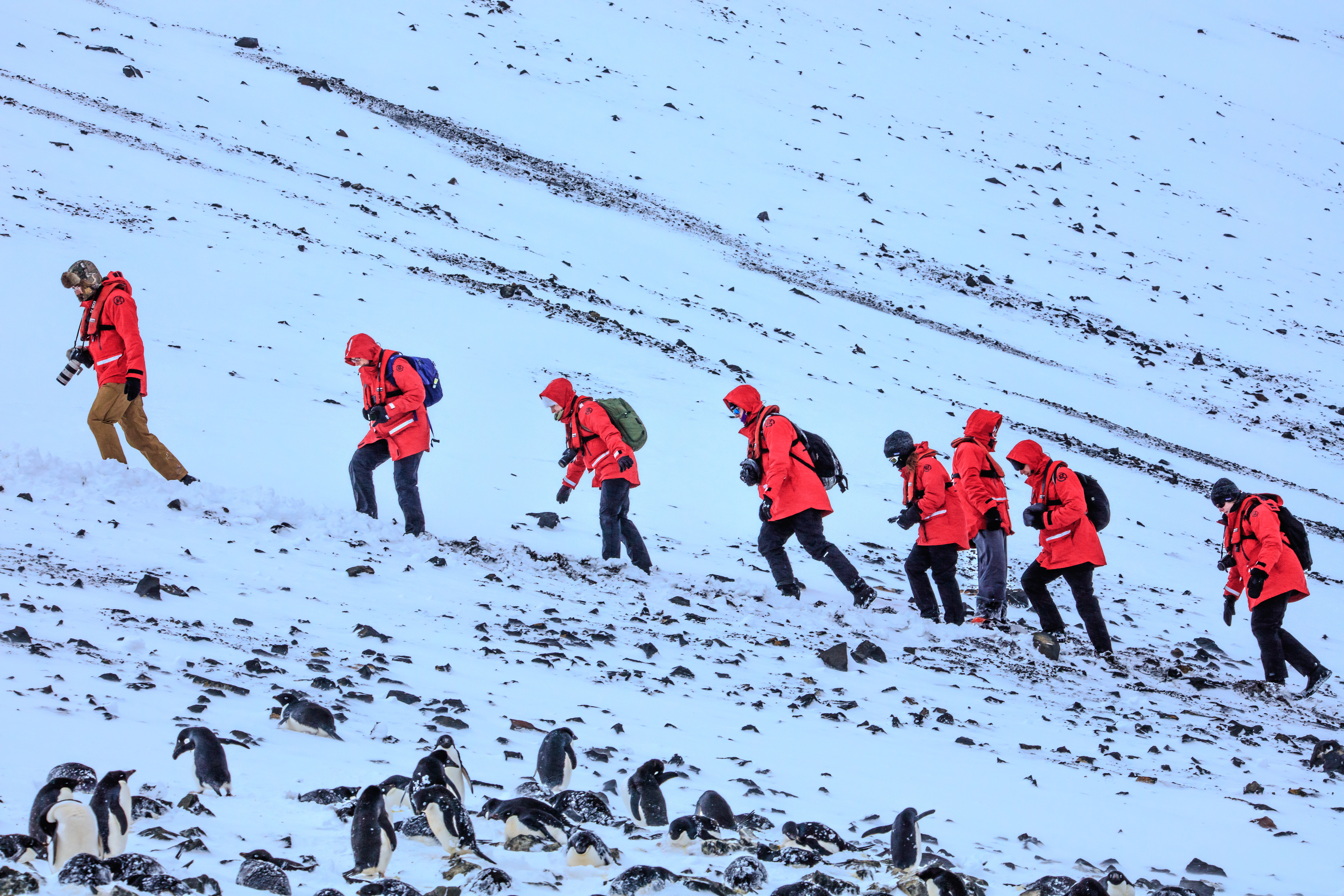 Landing No. 4..a quick but cool visit to Devil Island, just N of Vega Island...